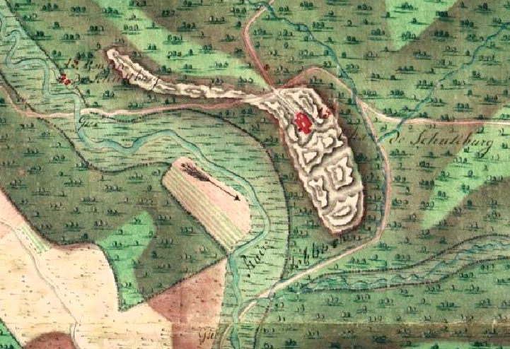 Schüttbourg castle and mill, Luxembourg, on the map of Ferraris.